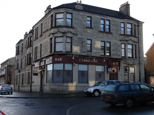 Carrigans Bar, Cambuslang Corner of Glebe Place and Cadoc Street, Cambuslang